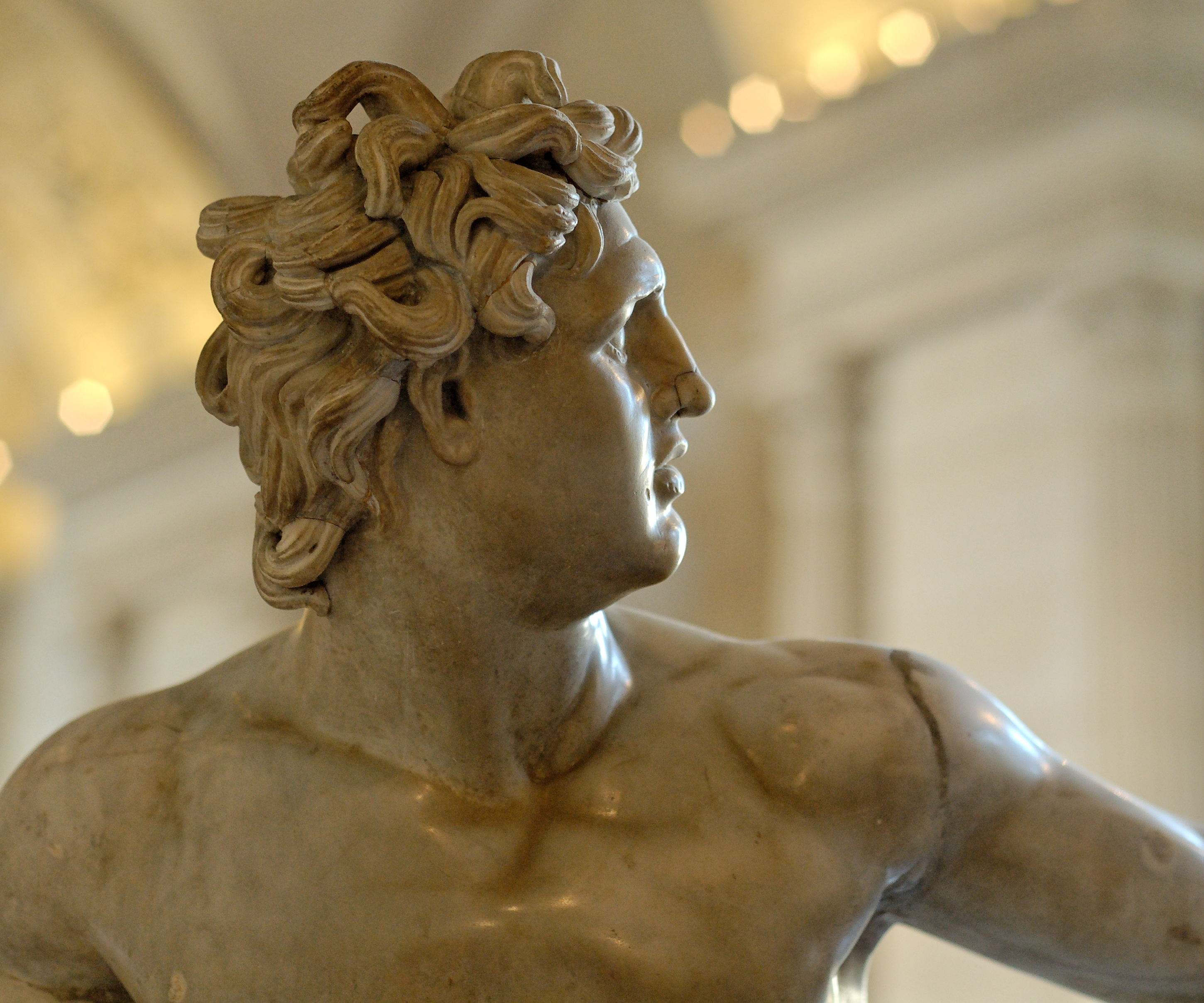 Head of the so-called “kneeling youthful Gaul”. Alabaster, Roman copy of the 1st–2nd century CE after a Pergamene original of the 3rd BC. Left hand and right arm are modern restorations.